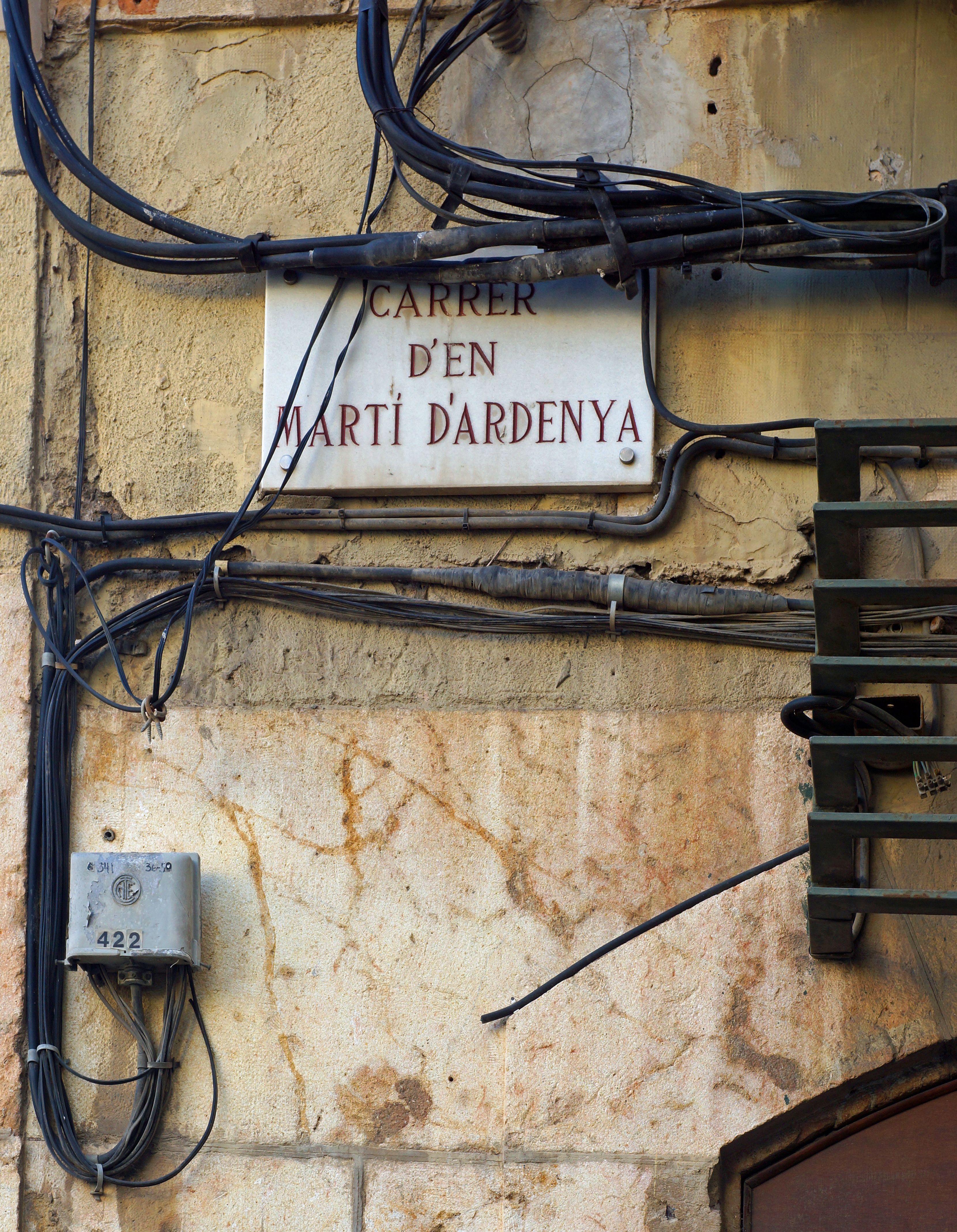 Tarragona, Catalonia: The beauty of ugliness: streetname with cables in the Martí d'Ardenyà Street